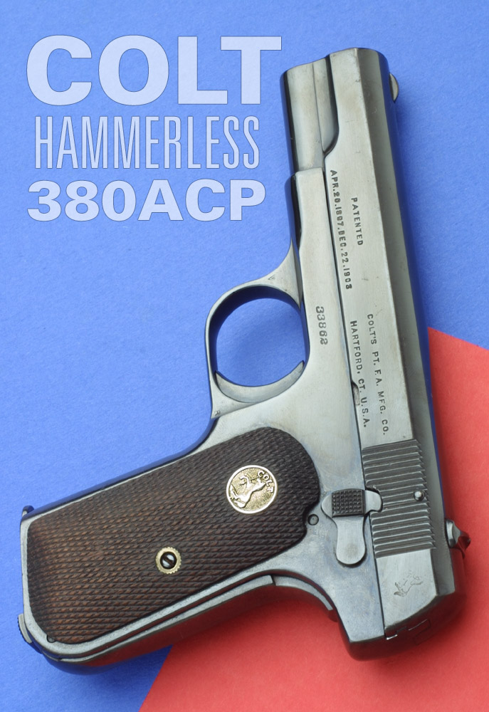 Colt Hammerless 1903 pistol 380ACP. (Photo by Oleg Volk) Technically, a Pocket Hammerless in .380 ACP is the M1908. The .32 ACP version is the only one referenced as the M1903 Pocket Hammerless.